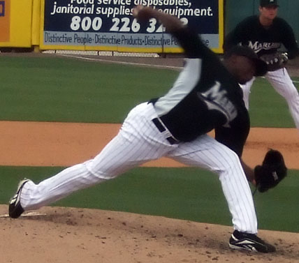 Pitching at a spring training game vs the Baltimore Orioles on 2/29/08. I took this picture. 03:02, 31 March 2008 . . Rabbethan . . 428×377 (59 KB)